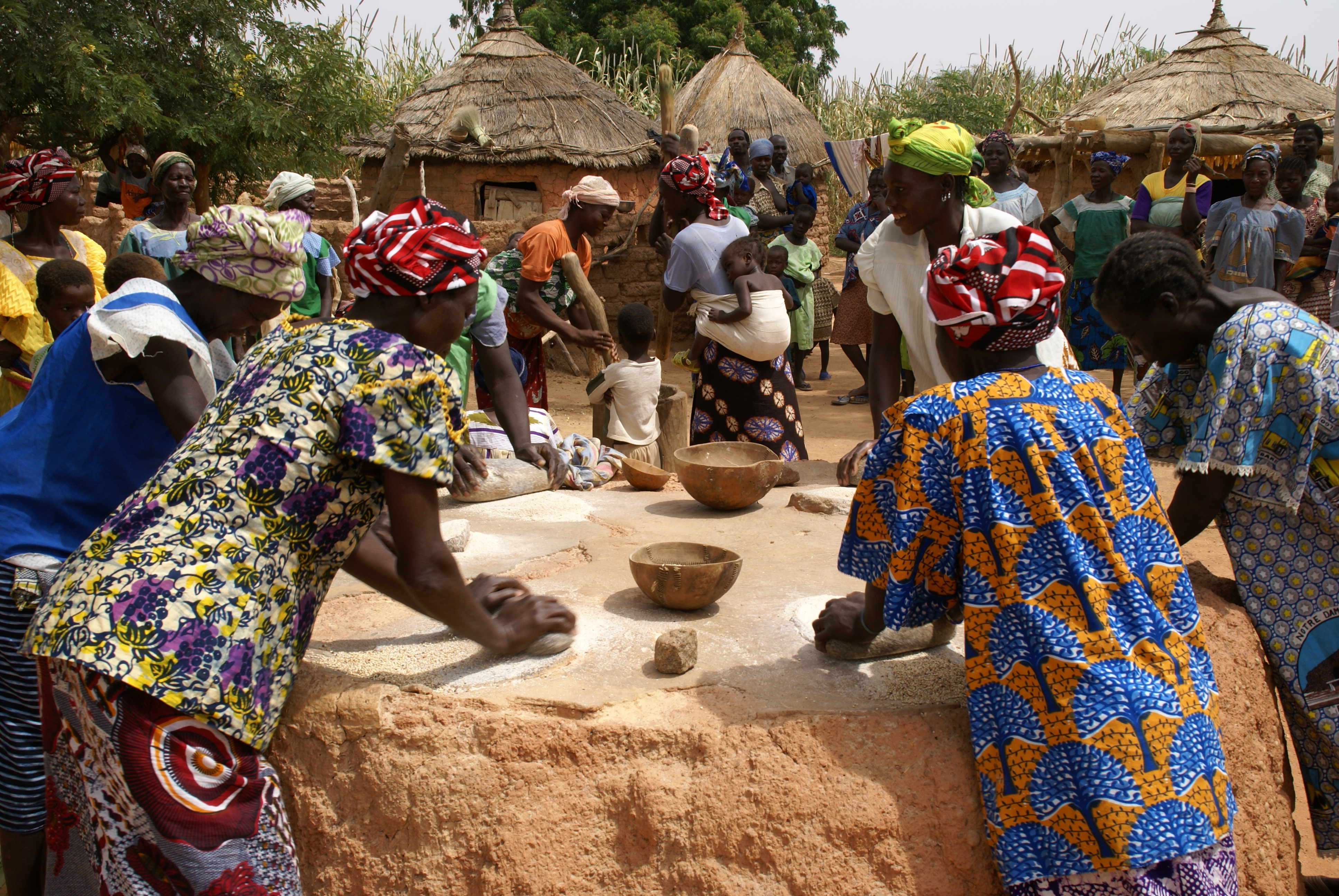 Women kneading millet to prepare food. 2007, Kaya, Burkina Faso Copyright